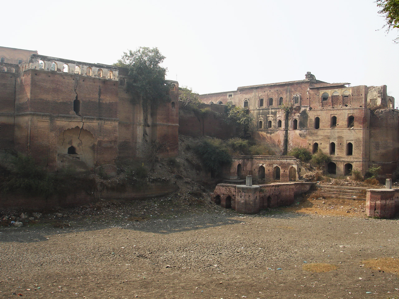 Old fortess@ Kaithal, Ruins of Kaithal fortress, Haryana, India